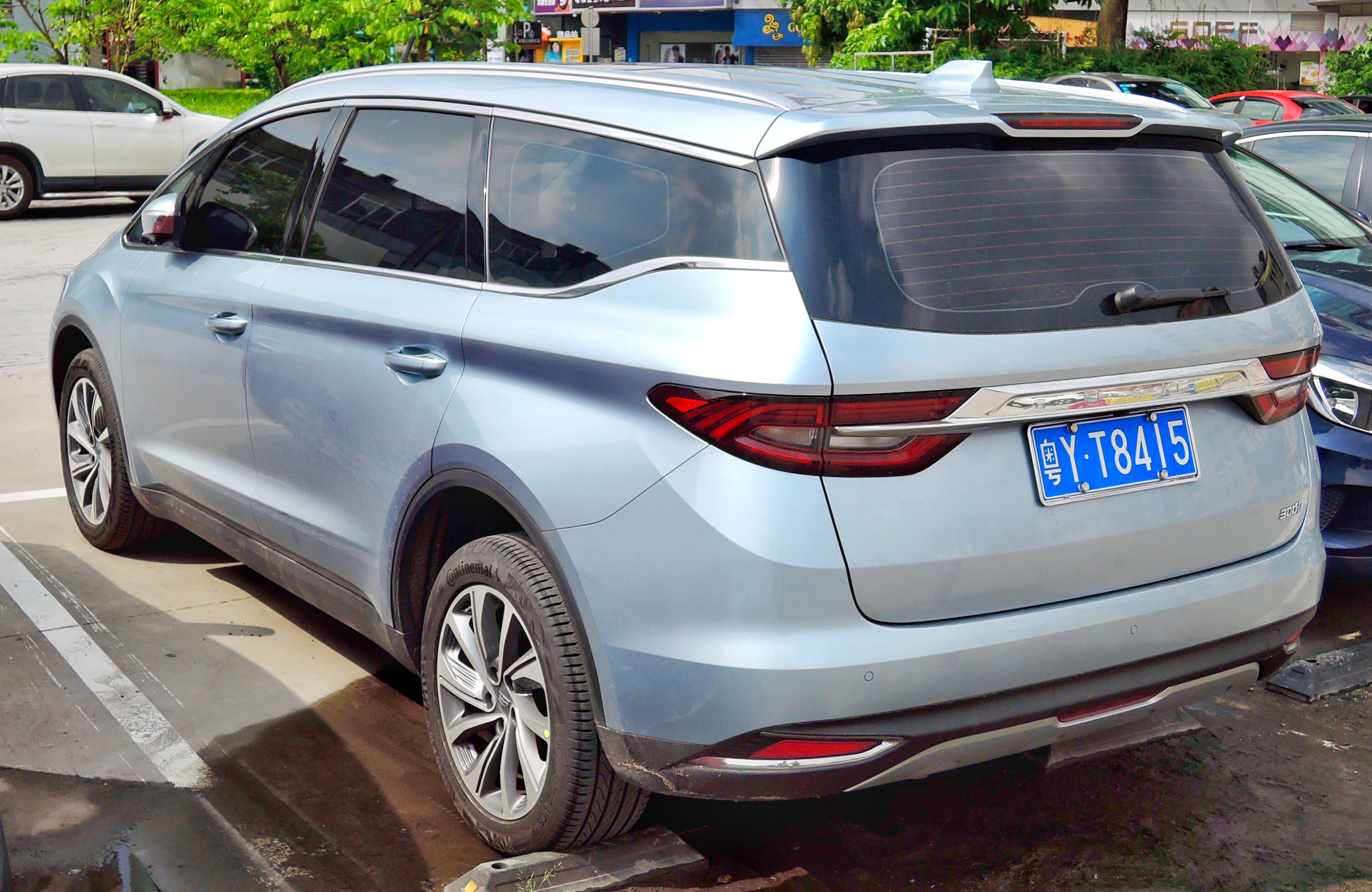 A 2019 Geely Jiaji taken in Foshan, Guangdong province, China. 中文（中国大陆）: 一辆2019年的吉利嘉际，摄于中国广东省佛山市。